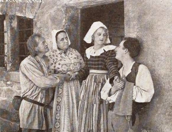 Still from the American drama film The Spotted Lily (1917) with an unidentified actor and actress, Ella Hall, and Victor Rodman, on page 28 of the October 6, 1917 Exhibitors Herald.